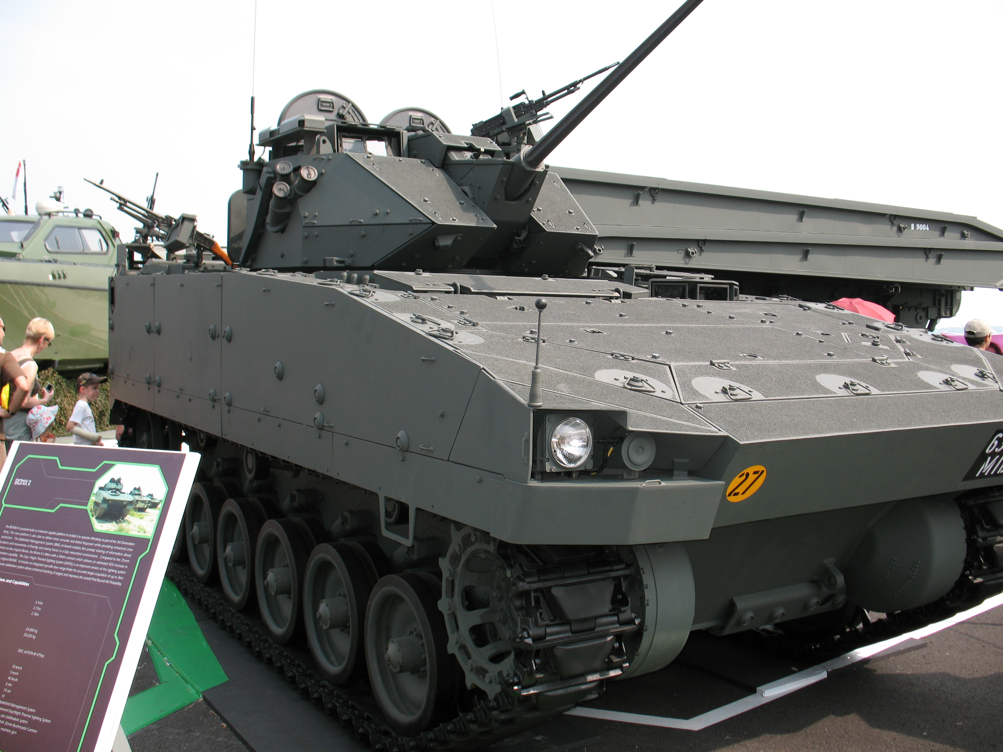 A Bionix Armoured Fighting Vehicle